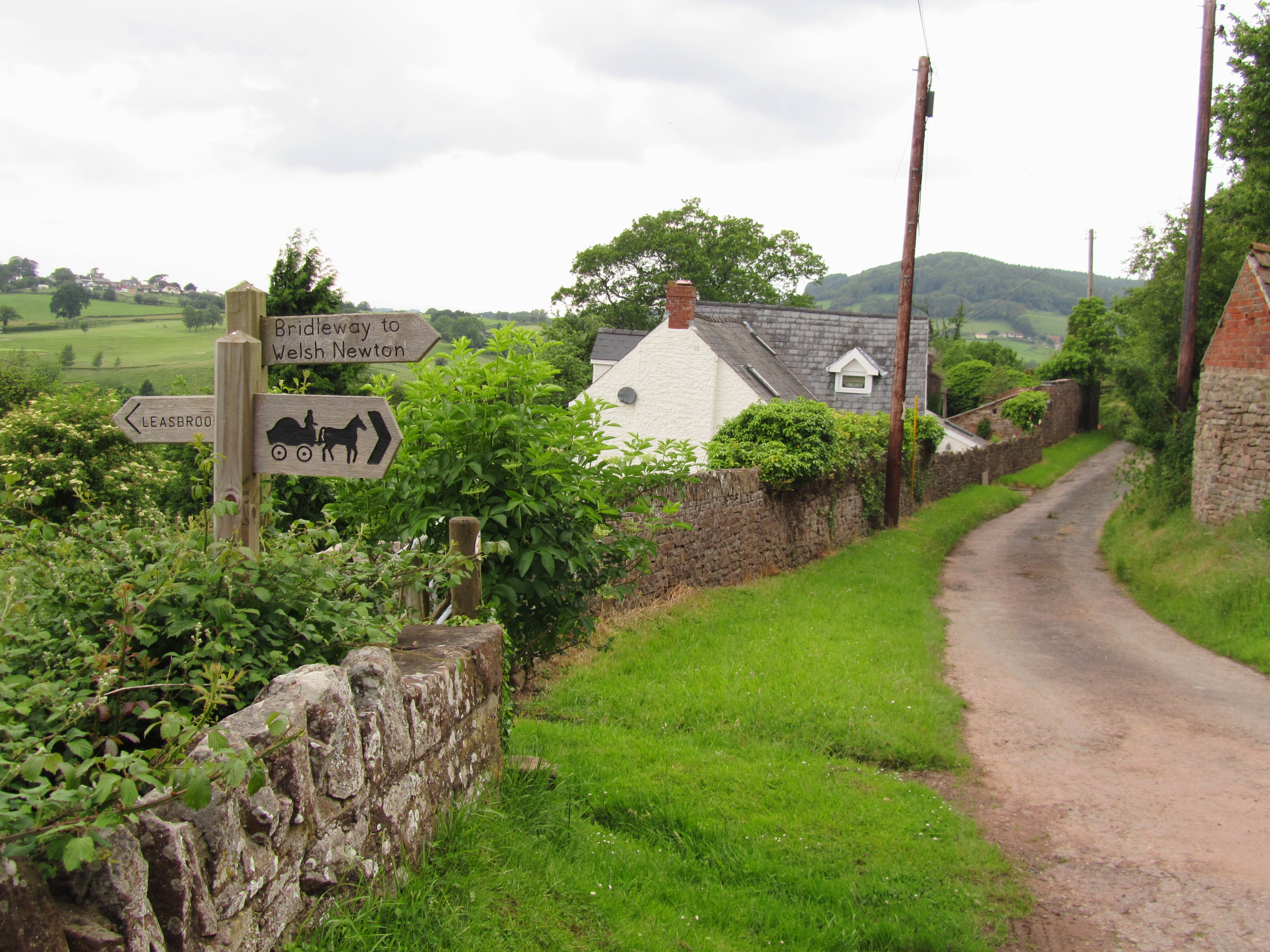 Newton Court Lane, near Monmouth in Wales